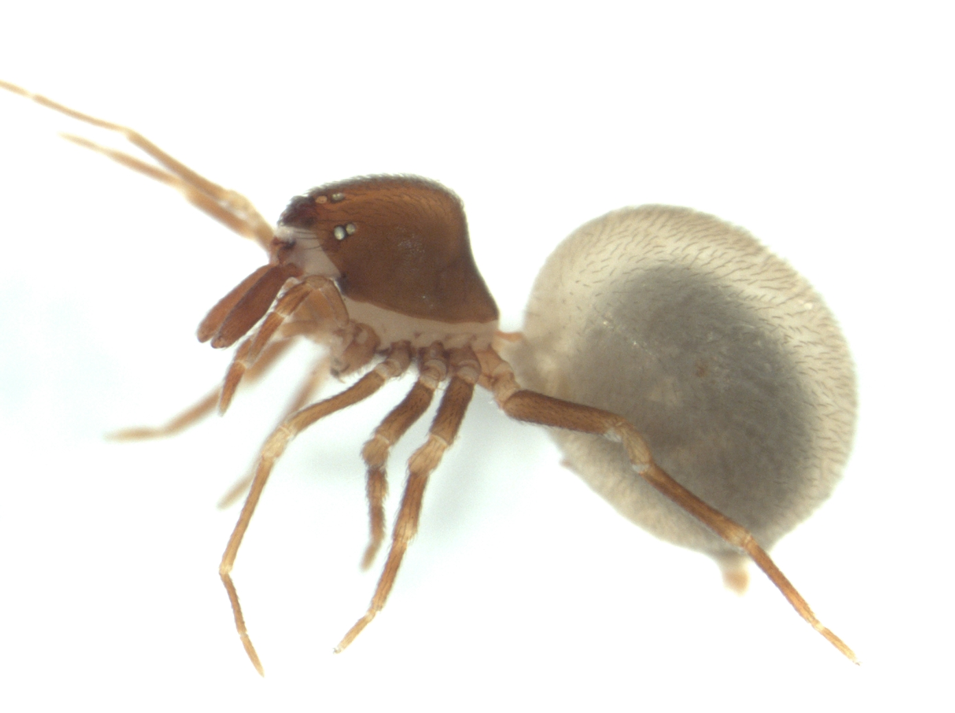 adult female Zearchaea clypeata